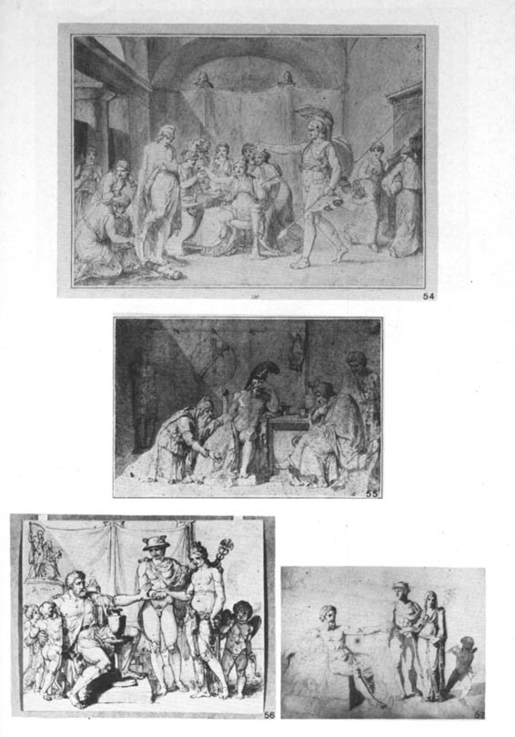 Some works by Feodor Iwanowitsch Kalmyk (1763-1832), the Kalmyk (West Mongolian Oirat) painter-sculptor, dealing with classical subject matter. Kept in the Thorvaldsens Museum Kopenhagen and the Staatliche Kunsthalle Karlsruhe.